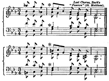 A snippet of music notation from a PD book (Sound and music: a non-mathematical treatise on the physical constitution of musical sounds and harmony, ..., By Sedley Taylor, 1873) Other versions File:Bach - Taylor 1873 top.mid File:Bach - Taylor 1873 bottom.mid